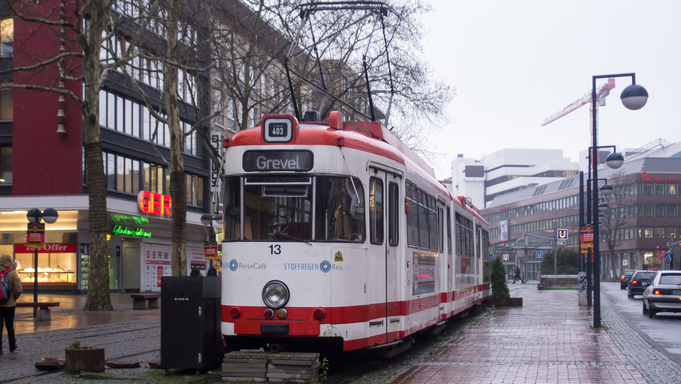 Old tram, Dortmund